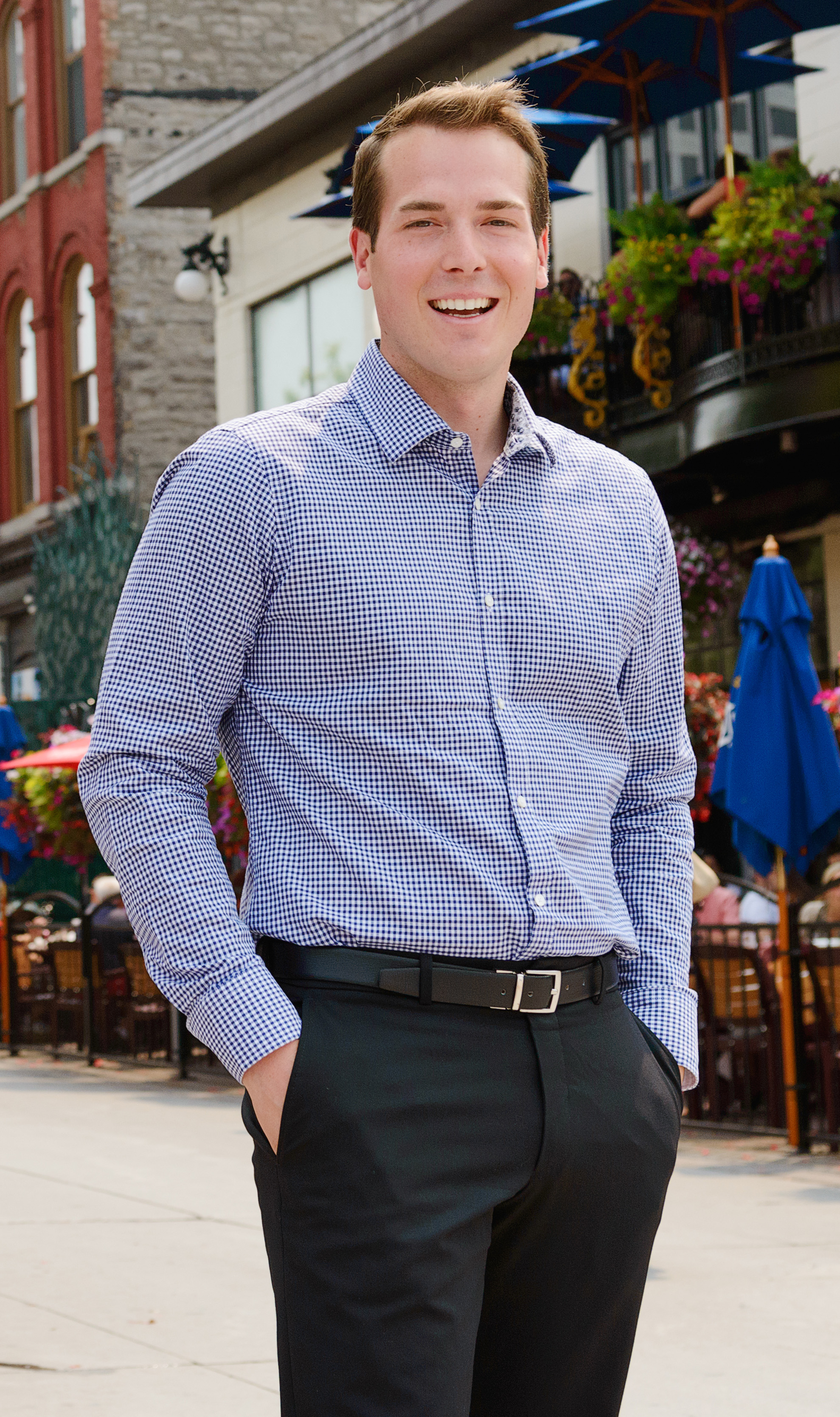 Picture of Mathieu Fleury